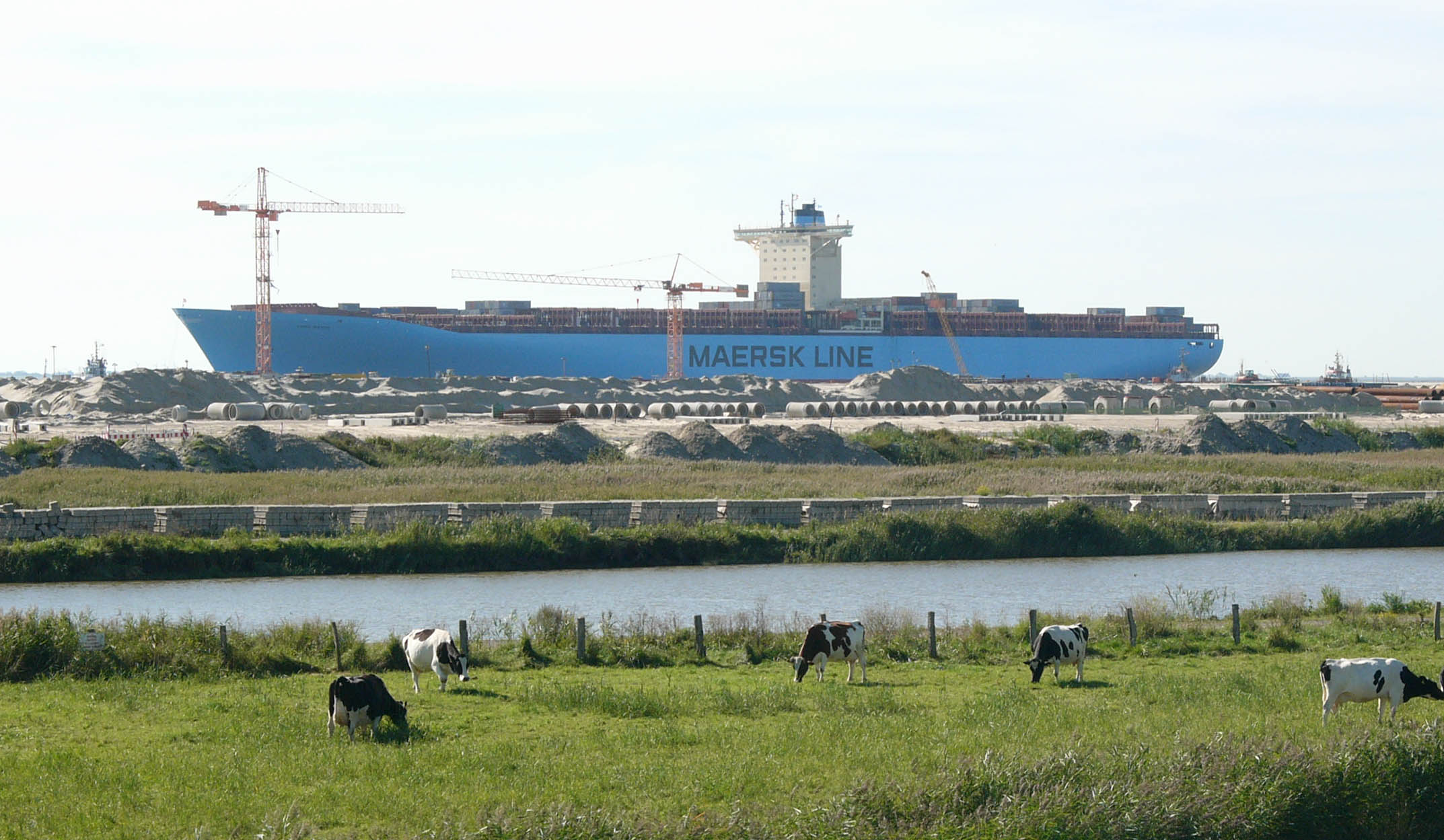 Largest container ship of the world (in 2006) - Emma Mærsk during its first visit in Bremerhaven September 2006. In the foreground the construction site of the new container terminal CT IV. IMO Number: 9321483 MMSI Number: 220417000 Callsign: OYGR2 Length: 398 m Beam: 56 m Information about Emma Mærsk may be found at IMO 9321483. A ship can change her name and flag state through time, but the IMO number remains the same through the hull's entire lifetime. Therefore, it's useful to identify a ship through her IMO number.